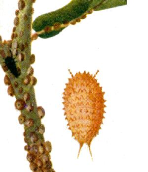 Gumtree scale. Eriococcus coriaceus (Hemiptera: Eriococcidae)